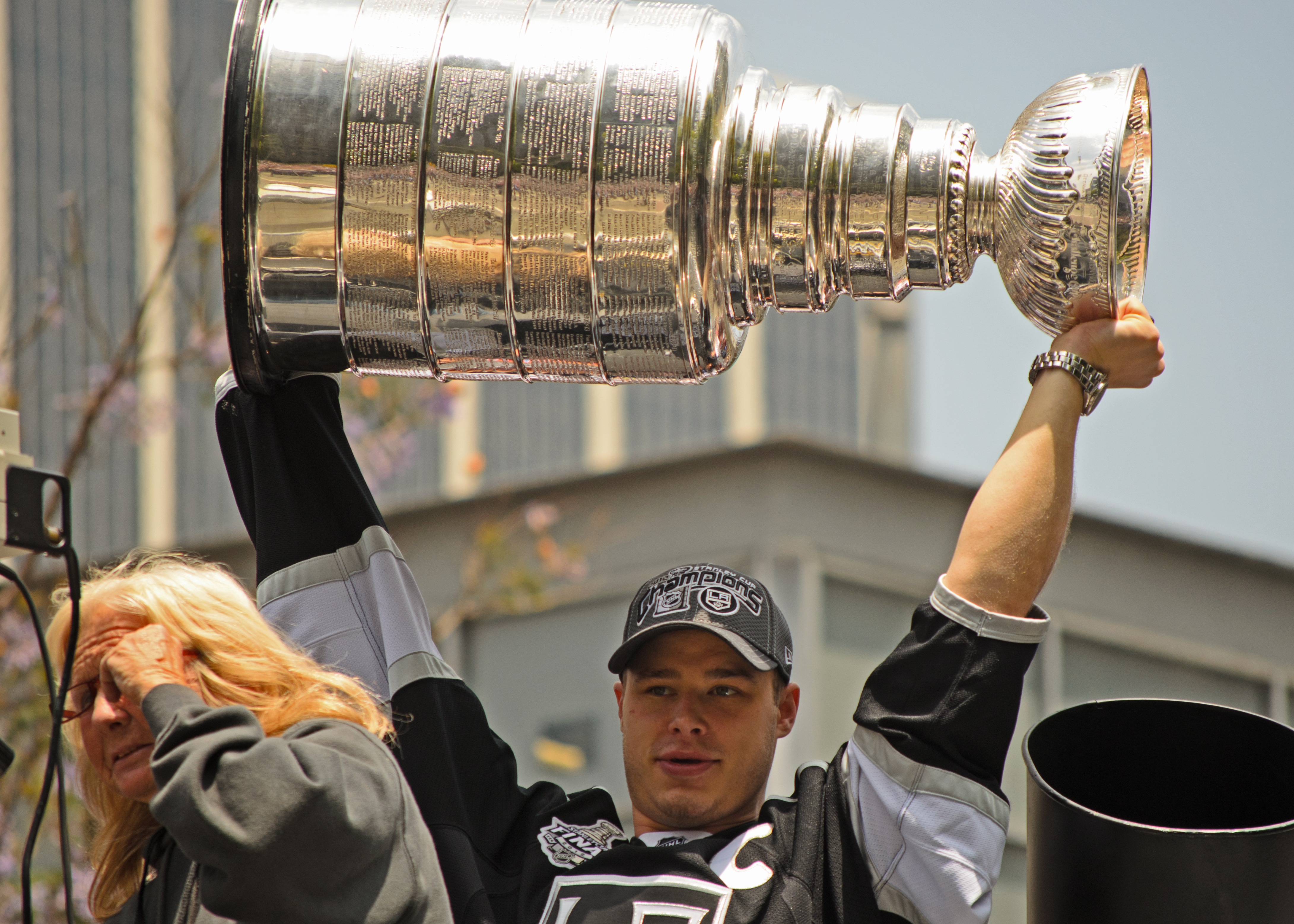 Los Angeles Kings captain and winger Dustin Brown with the Stanley Cup at the victory parade for the Kings in downtown Los Angeles.